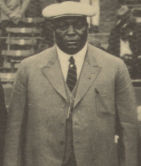 Rube Foster at the 1924 Colored World Series. LOC states here that there are no restrictions on use of this image, therefore it is PD. This file has been extracted from another file: 1924 Negro League World Series.jpg